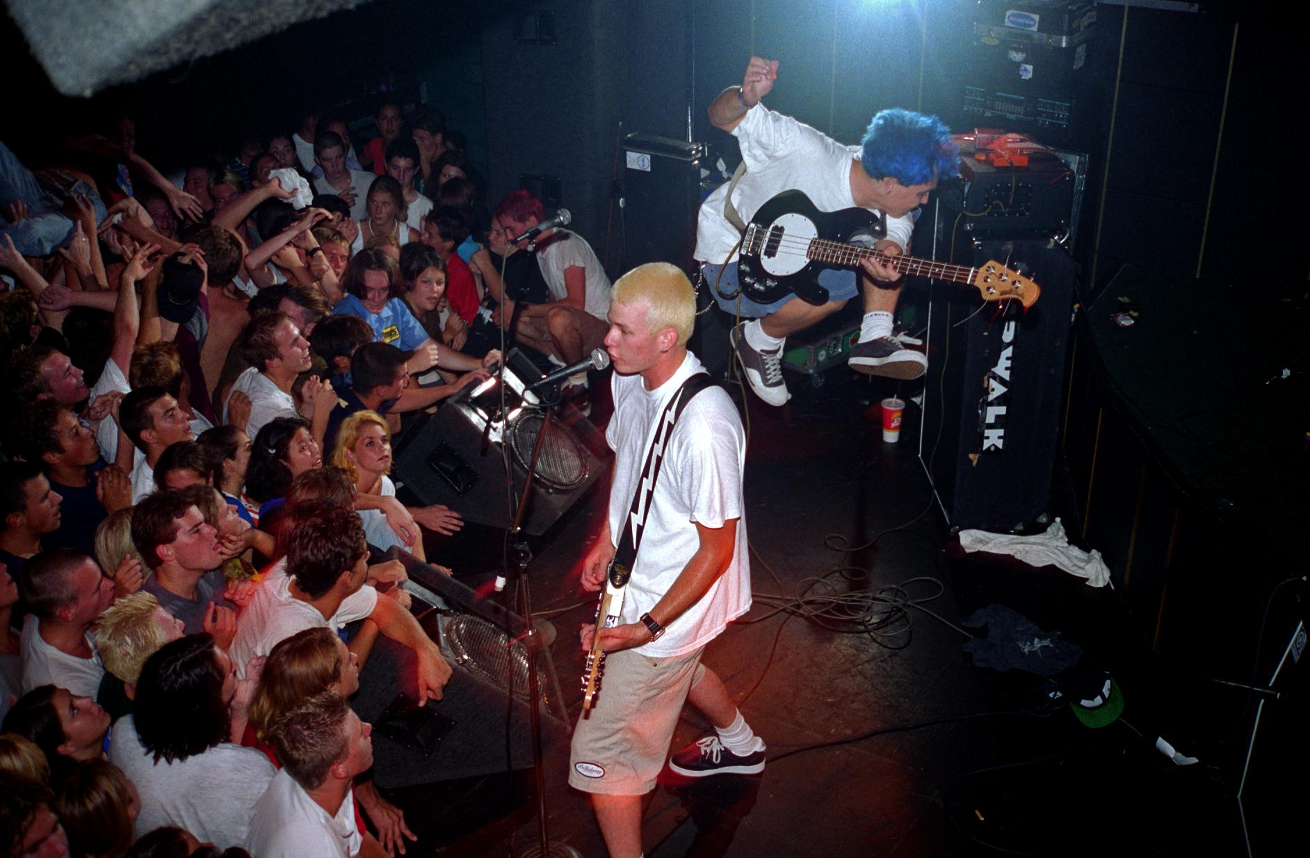 Blink-182 at the Showcase Theater in Corona July 18,1995